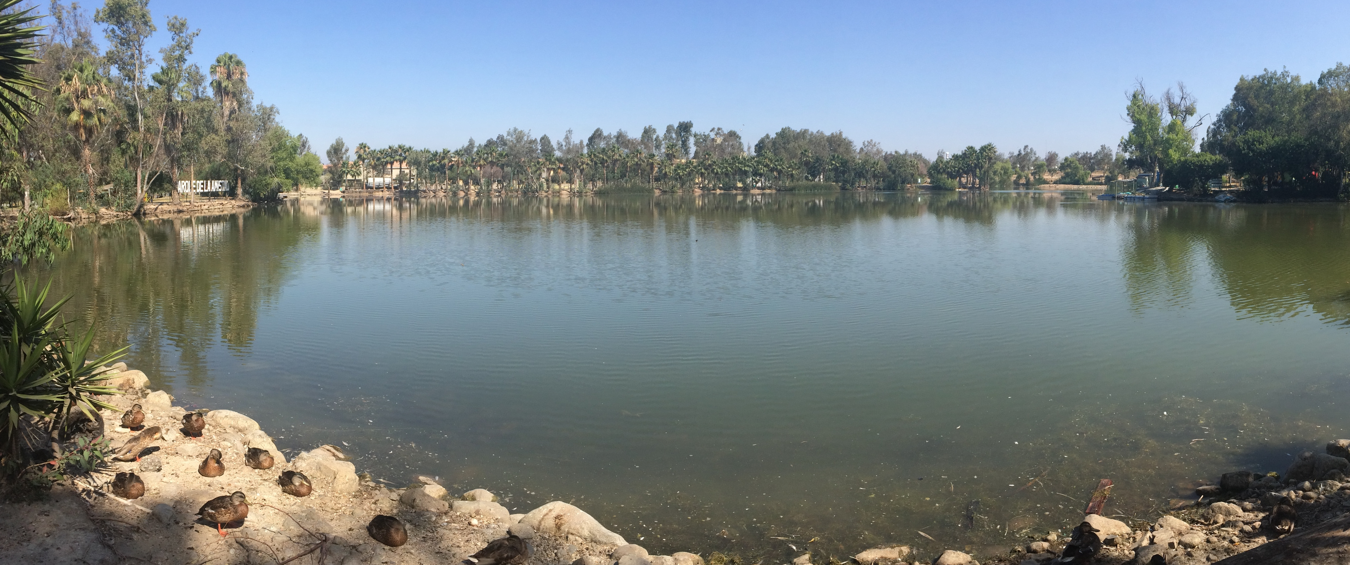 Panorama of the lake in Tijuana's Parque de la Amistad